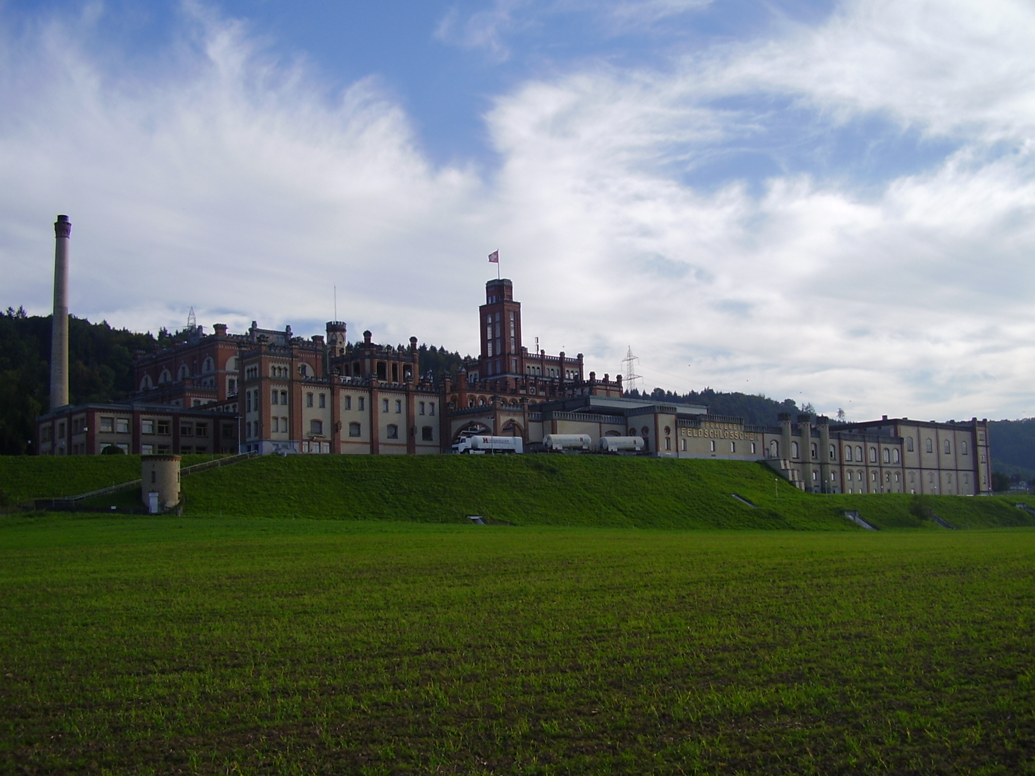 The Feldschlösschen in Rheinfelden